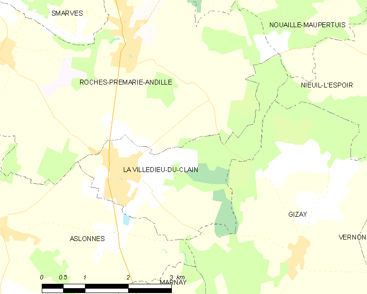 Map of French municipality La Villedieu-du-Clain